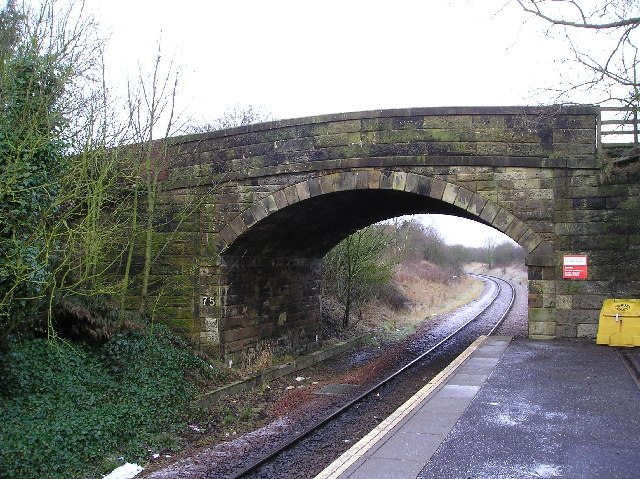 Bridge No. 75. Bridge that carries the minor road over the rail line, photographed looking north from the platform of Dunlop Station.